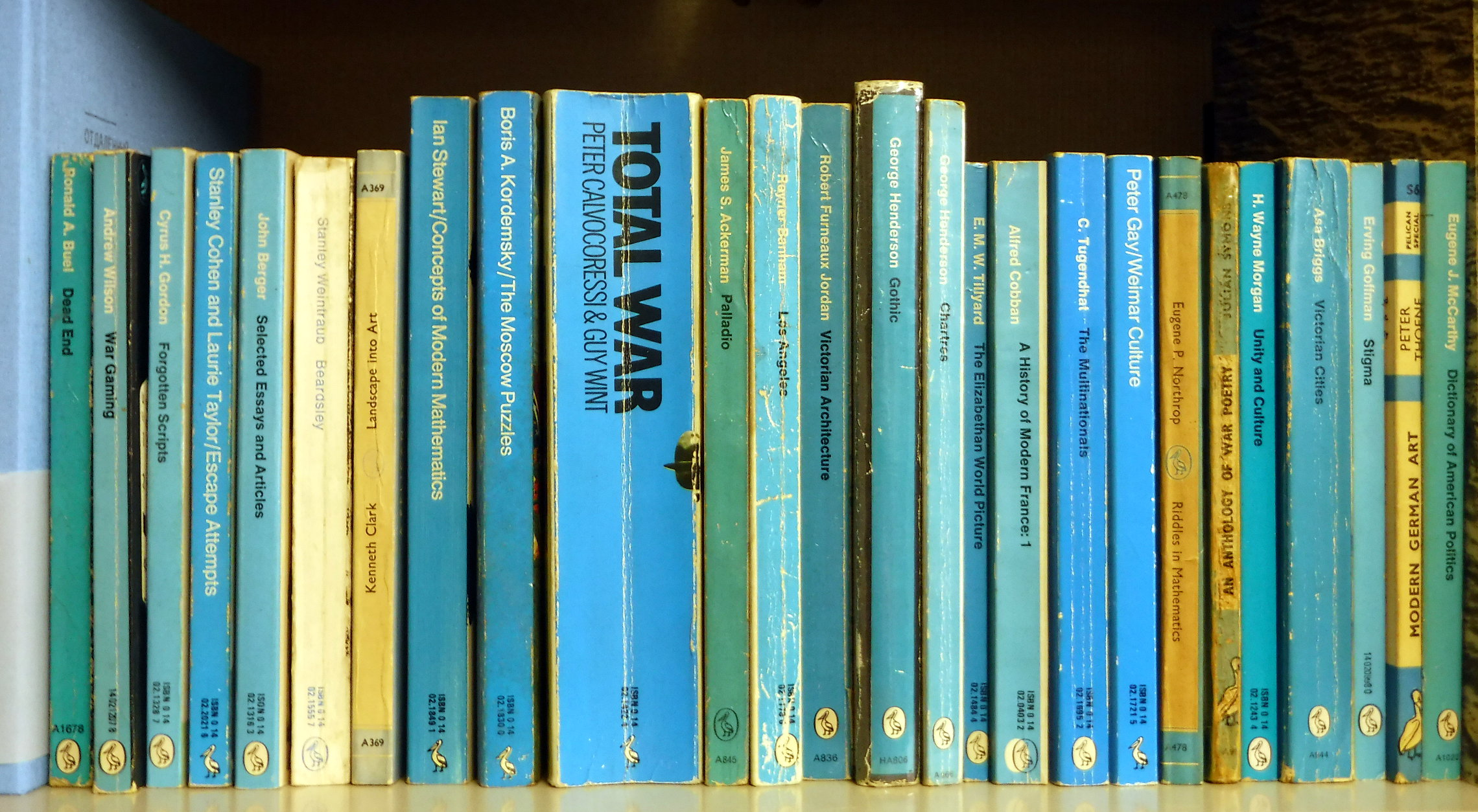 Spines of miscellaneous Pelican books (published by Penguin, in Harmondsworth)